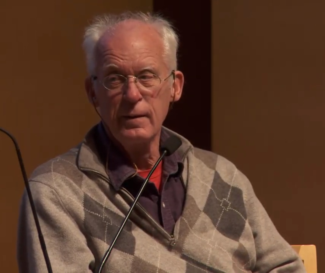 Jon Jost discusses Blue Strait and 50 years of filmmaking. Blue Strait is a tone poem about issues in a romantic relationship - a kind of visual music which envelopes the incident. Active since 1963, Jost gained wide recognition in the 1990s with a series of acclaimed feature films that included Sure Fire, All the Vermeers in New York, Frameup, and The Bed You Sleep In. Jost’s films typically explore the struggles of a family or several individuals in crisis and often depict the United States as a nation of unsustainable systems, swayed by its religious and patriotic beliefs, and determined by its landscapes. The seriousness of Jost’s themes is matched by the astonishing variety and creativity of his formal and technical processes, including his use of experimental visual techniques, trained and untrained actors, improvisation, and hybrid narrative forms. Jost’s impressive oeuvre has garnered numerous awards and today numbers over thirty feature-length films. Check out upcoming events and classes at the library in our online catalog